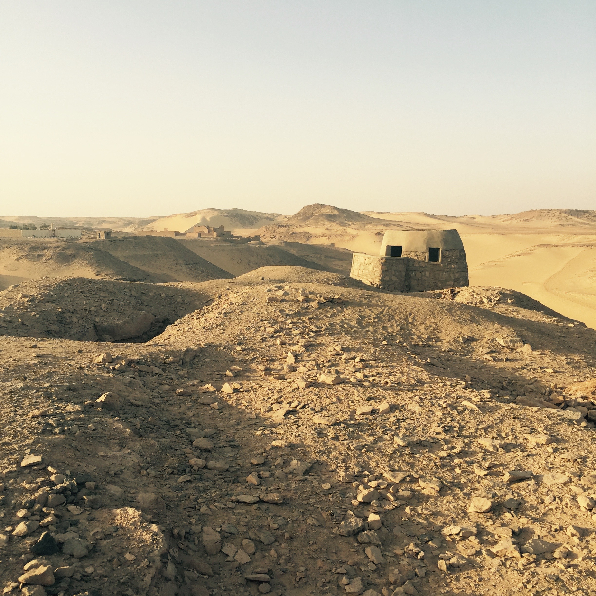 Desert outside Monastery of St Simeon, Aswan, Egypt